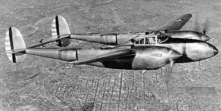 Lockheed XP-38A (S/N 40-762, modified YP-38) in flight. (U.S. Air Force photo)